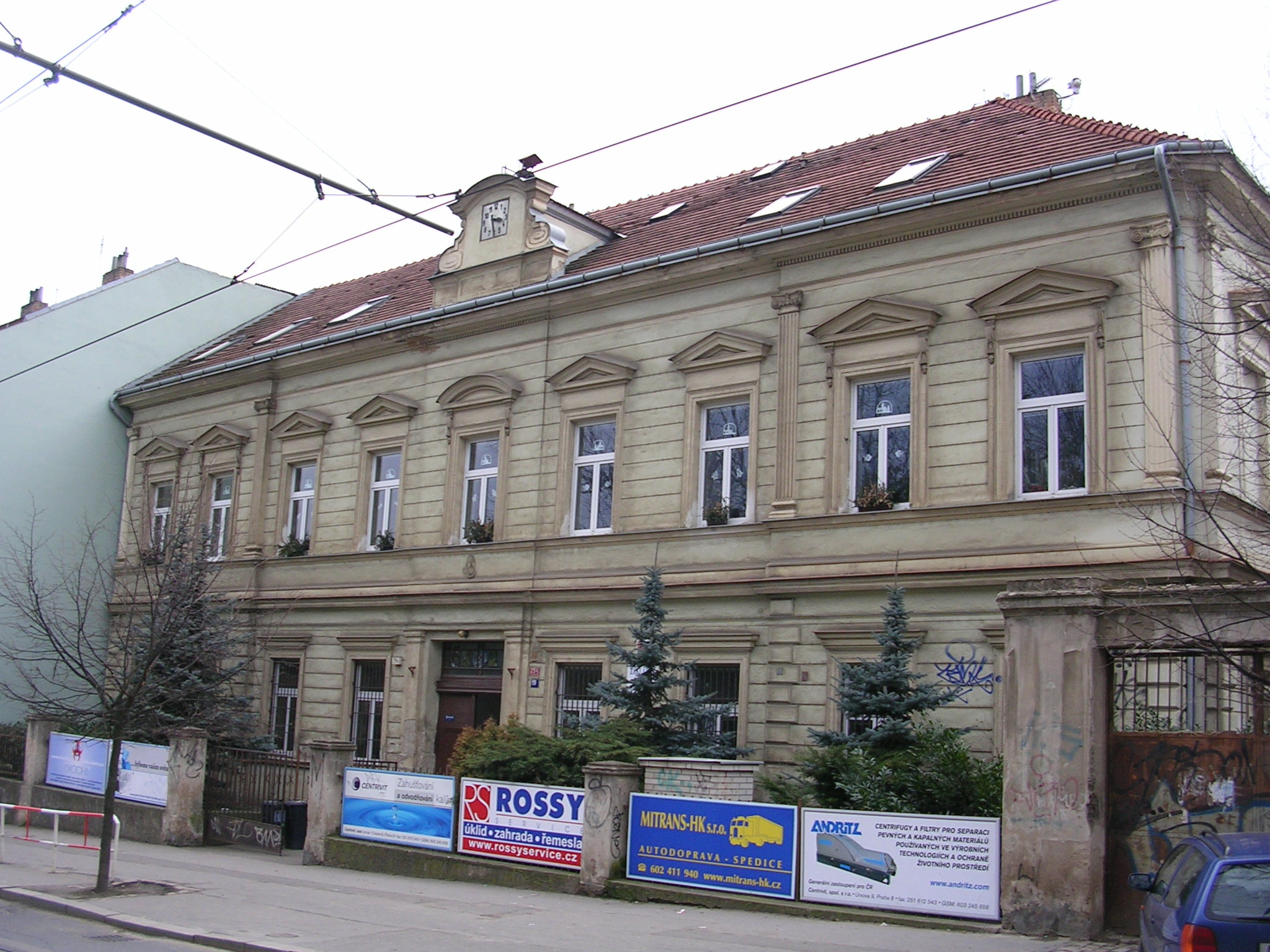 Hlubočepy, Prague, the Czech Republic.